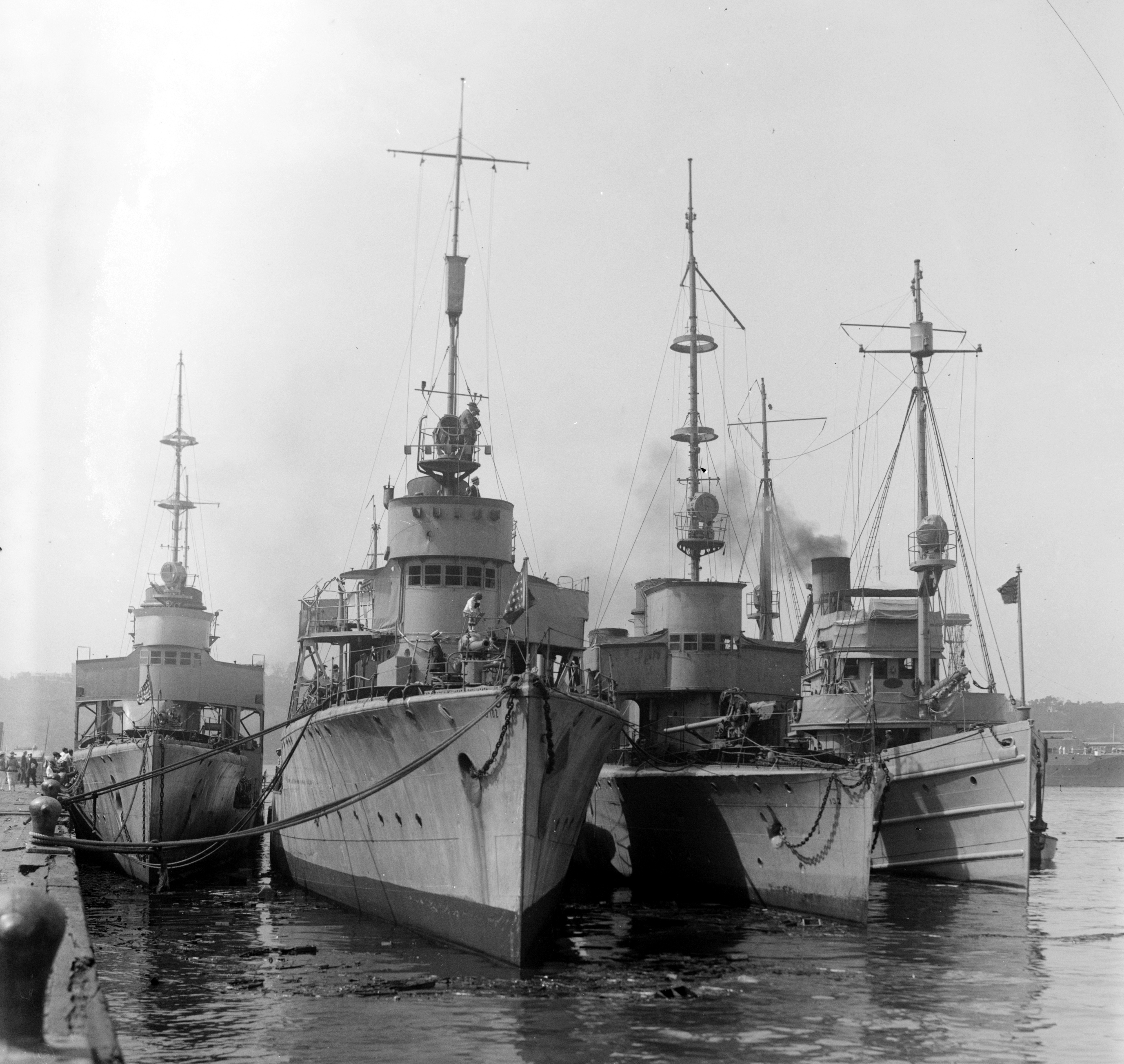 German torpedo boats under US control following World War I, in the New York, US. Two of the ships are identifiable by clearly visible hull number. Second from left G-102, third from left S-132. S-132 was scuttled at Scapa Flow in shallow water, was then quickly refloated and given to the US. Commissioned in June 1920 for voyage to US, was decommissioned in Norfolk in August, then sunk as target on 15 July 1921. [1] The first ship on the left is almost certainly V-43, the third of German torpedo boats taken to US after World War I. Fourth ship from left is named Redwing as identified from related photo.